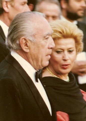 Anthony Quinn at the Cannes film festival